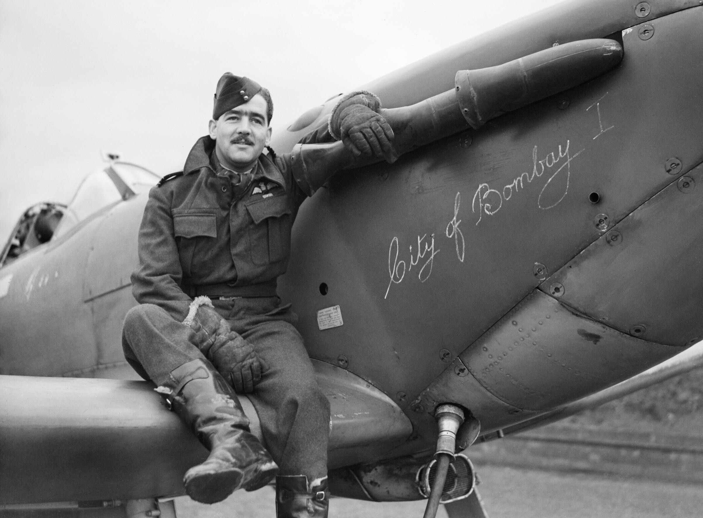 Squadron Leader H J L Hallowes, CO of No. 122 Squadron, with his Supermarine Spitfire Mk V at Scorton in Yorkshire, December 1941. Acting Squadron Leader H J L Hallowes, sitting on the wing of his Supermarine Spitfire Mark VB "City of Bombay" at Scorton, Yorkshire, upon assuming the command of No. 122 Squadron RAF. A veteran of the Battle of Britain, Hallowes had shot down at least 19 enemy aircraft by November 1940, while flying with No. 43 Squadron RAF. He added to his victories with 122 Squadron, and also commanded Nos. 222 and 504 Squadrons RAF before the end of the war, by which time his score was over 21.